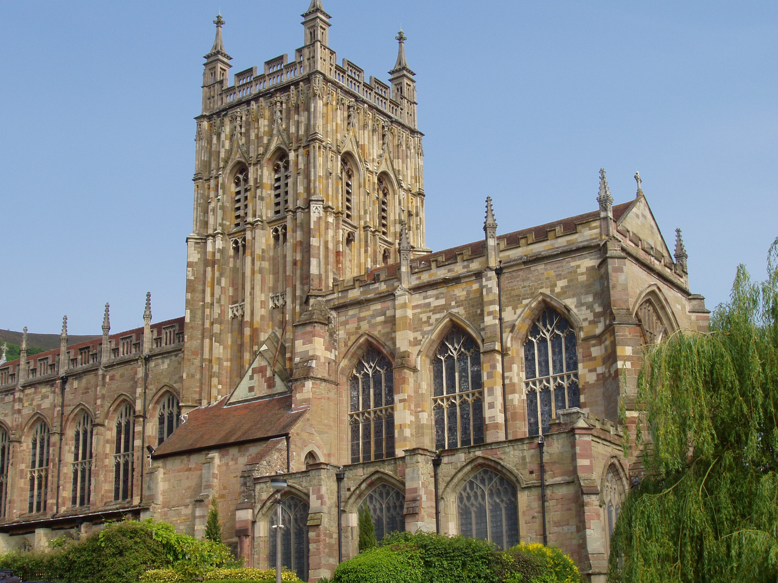 Tower, chancel and part of the nave of the Priory Church of SS Michael and Mary, Great Malvern, Worcestershire, seen from the southeast